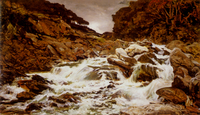 Painting of Otira Gorge on the West Coast of the South Island, New Zealand